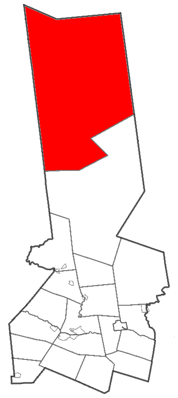 Map of Herkimer County highlighting Webb